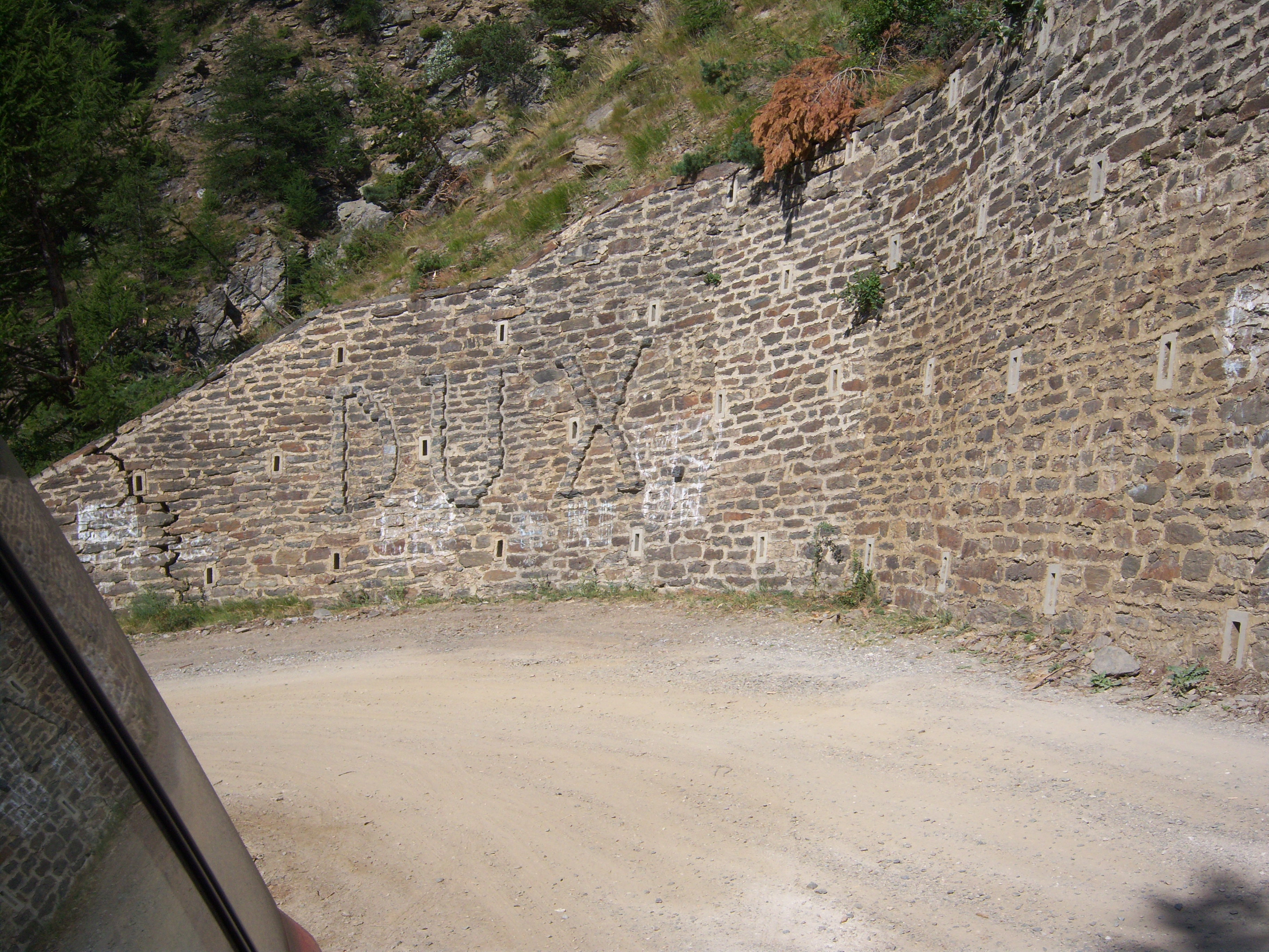 A curve in the Fort Jafferau road